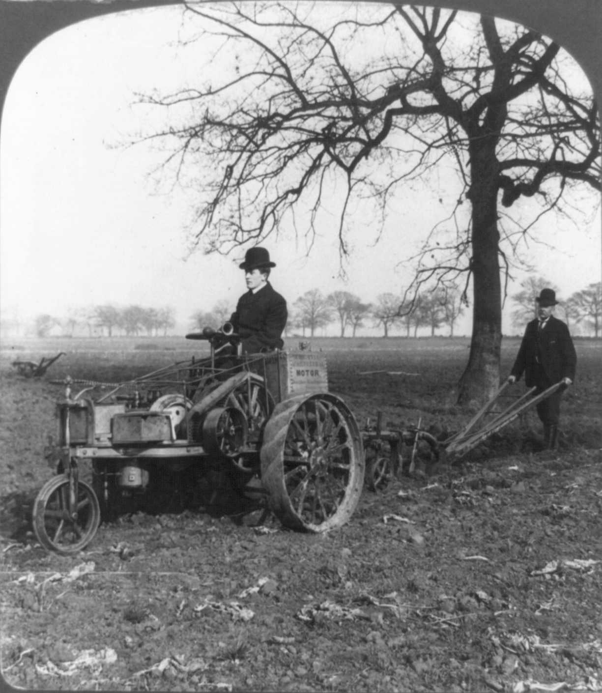 "Automobile plow" in use in England, 1905. A man driving a tractor followed by man behind the tractor-drawn plough.